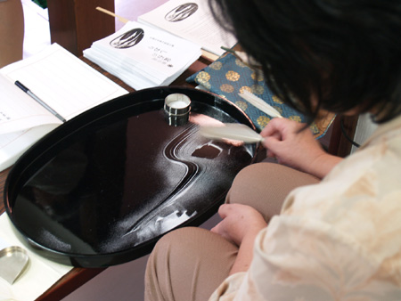 This is my photo which I took and also used in my OhmyNews Article